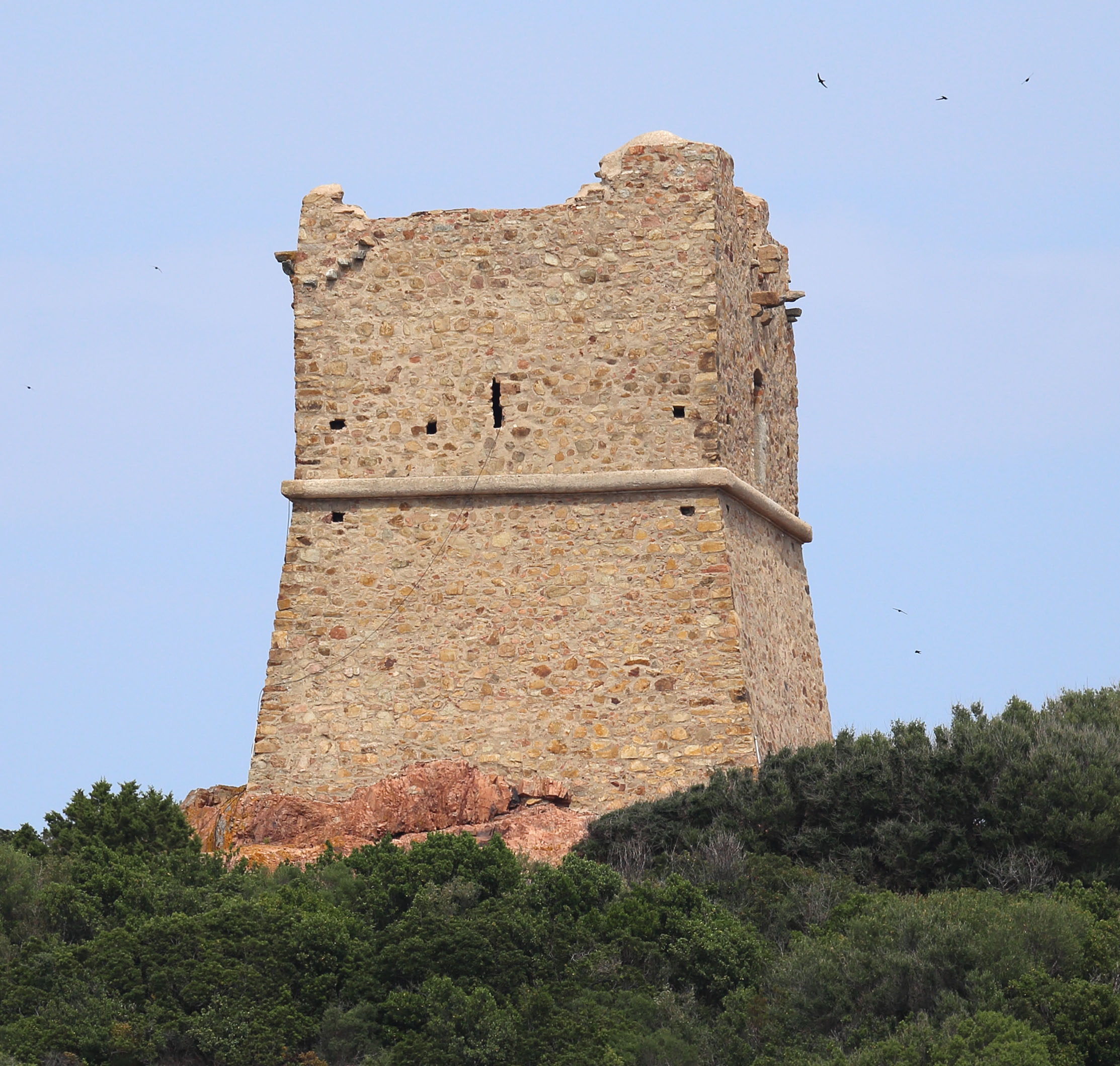 The ruins of the Tour de Pinarellu. The Genoese tower is located on the Île de Pinarellu in the commune of Zonza ( Corse-du-Sud) and was built between 1589 and 1591.